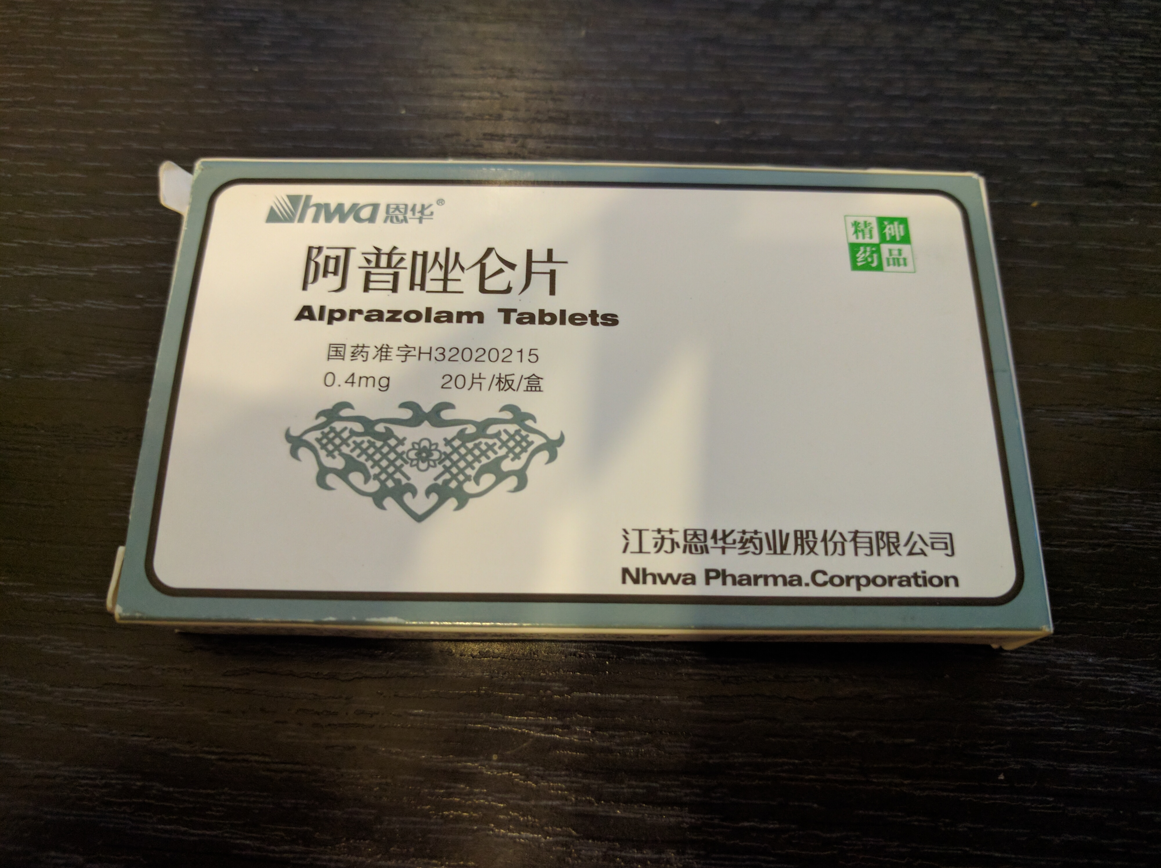 Alprazolam Tablets sales in Mainland China